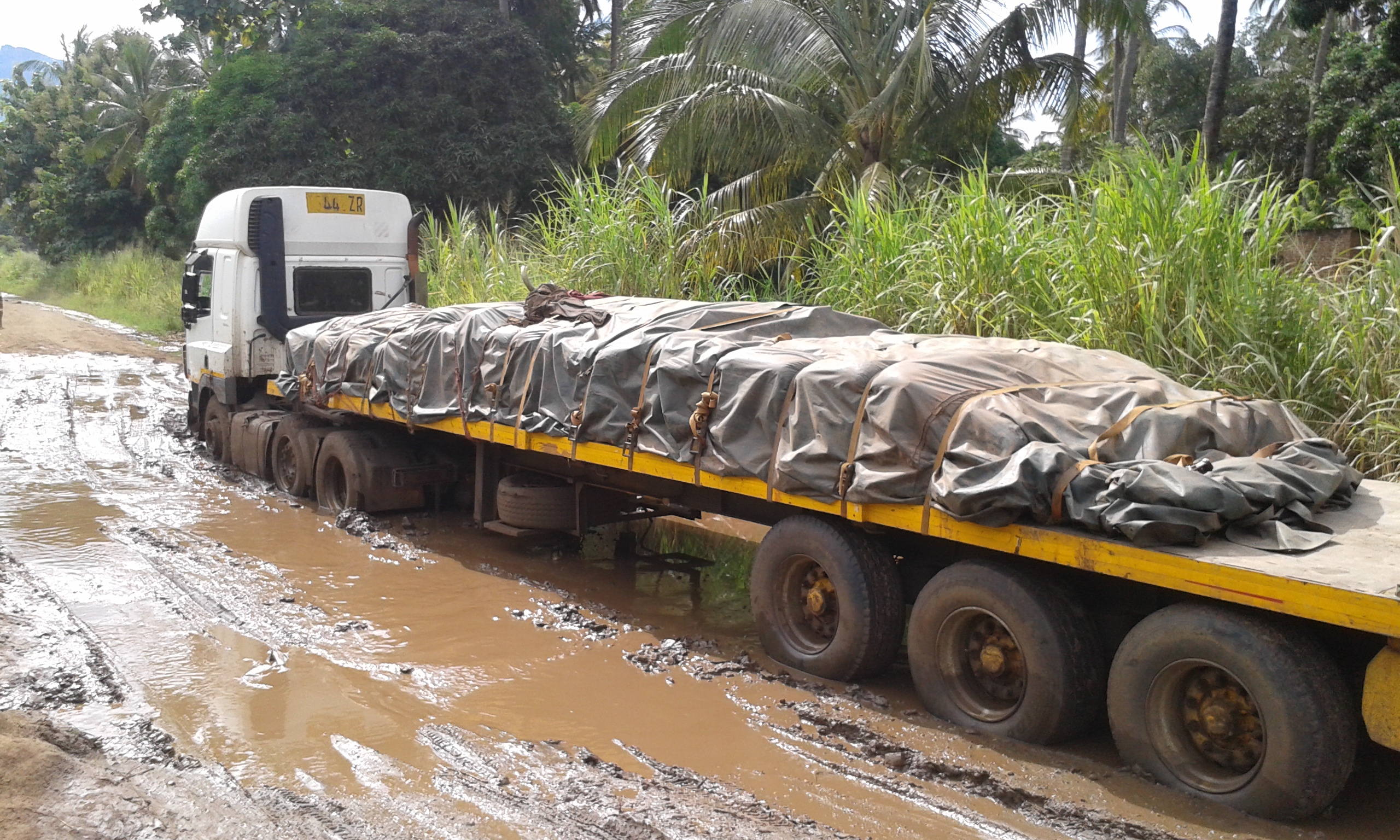 Mud flood on the village road near Morogoro, Tanzania This is an image with the theme "Africa on the Move or Transport" from: Tanzania